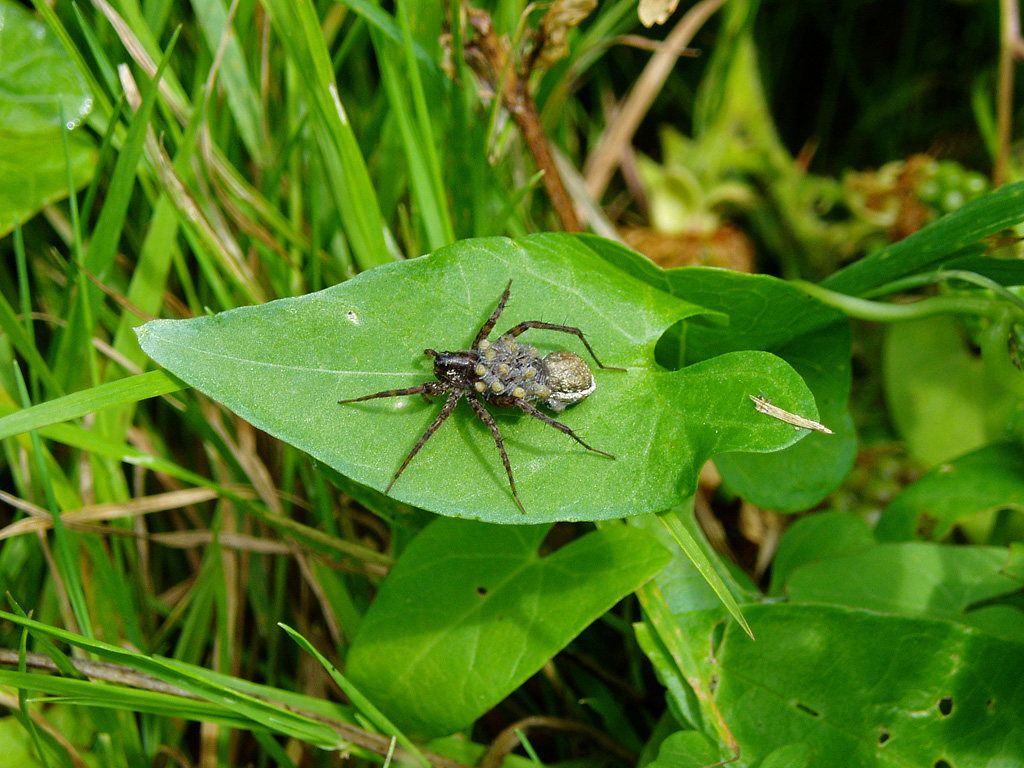 A female wolf spider carrying nimphs